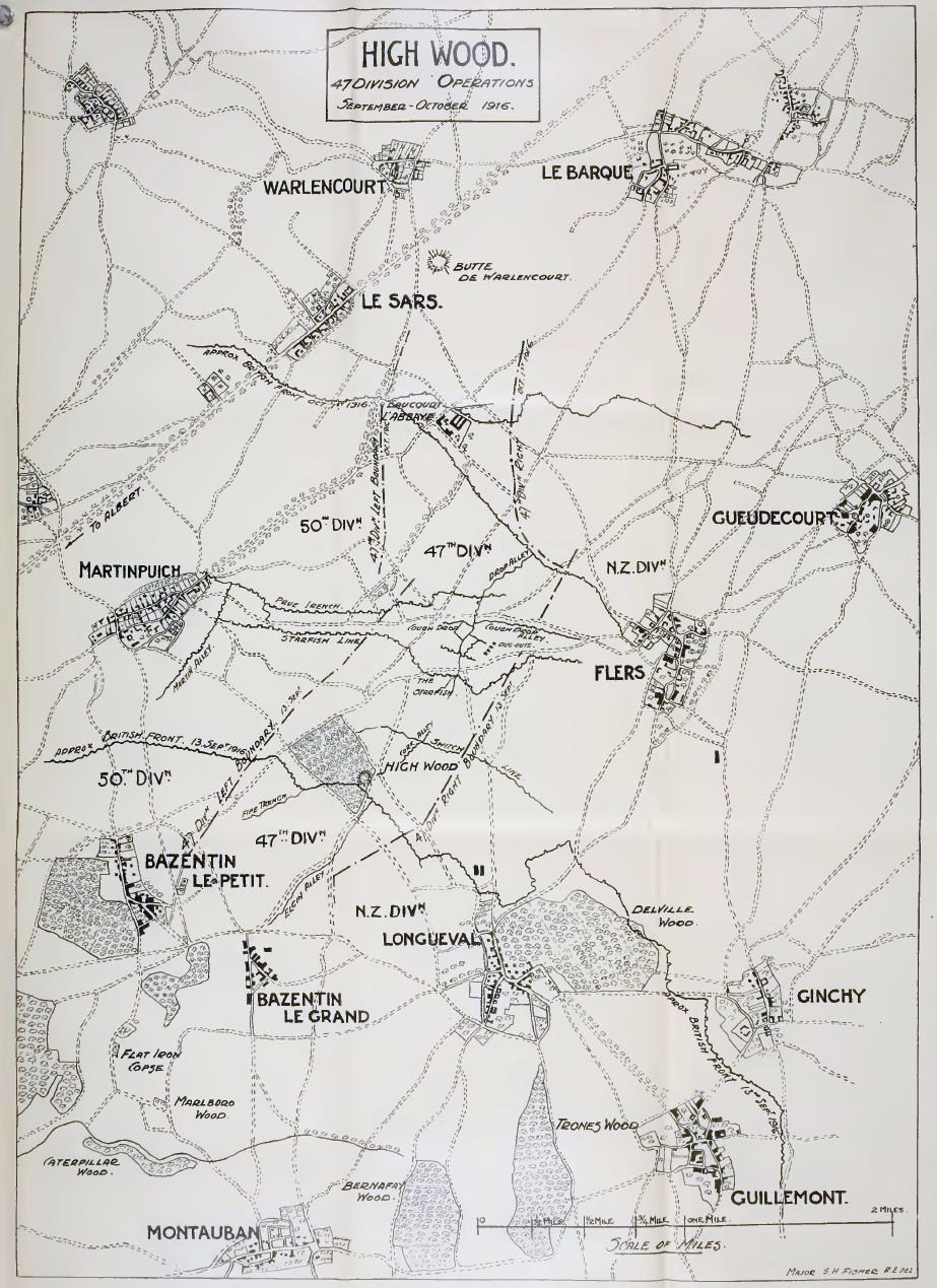 47th Division, High Wood, September-October 1916